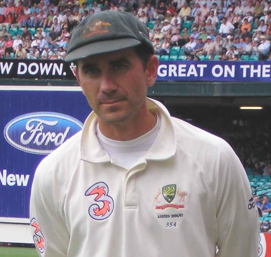 Justin Langer, Sydney Cricket Ground, 2 January 2007. This was his final Test match. Photo taken from Bill O'Reilly stand.